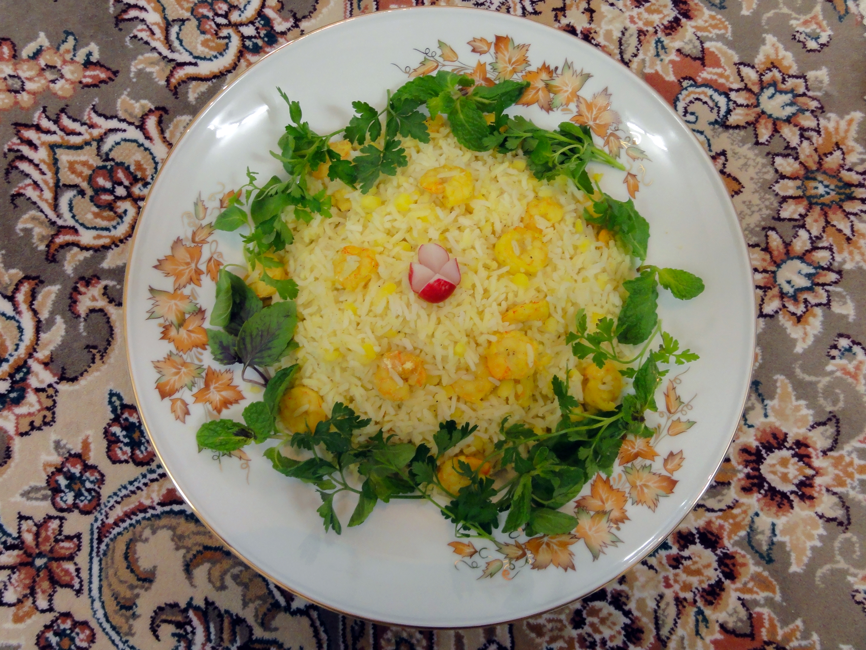 Iranian cuisine, also widely referred to as Persian cuisine, includes the foods, cooking methods, and food traditions of Iran.